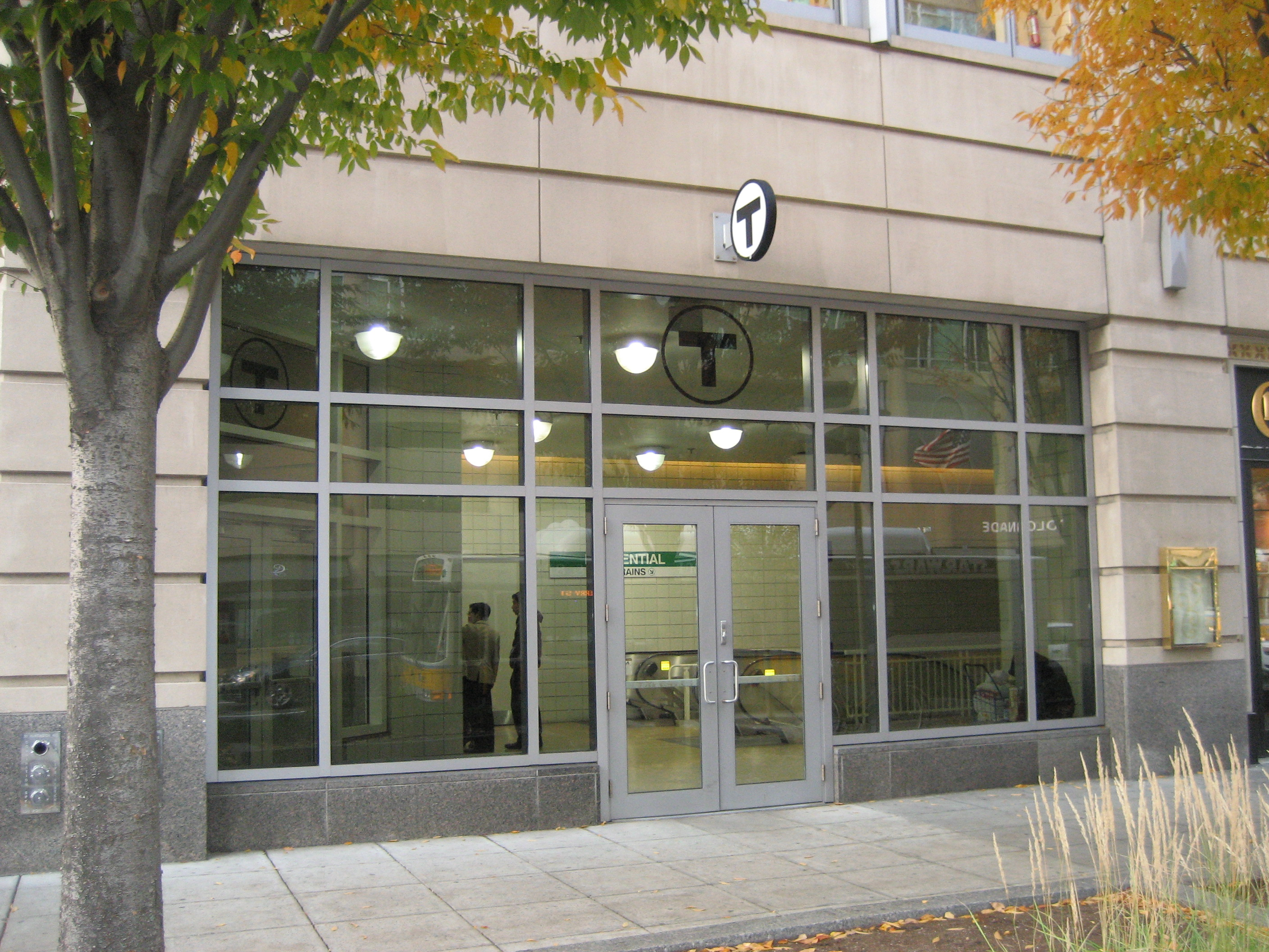 Main Entrance of Prudential Station of the MBTA Green Line in Boston.